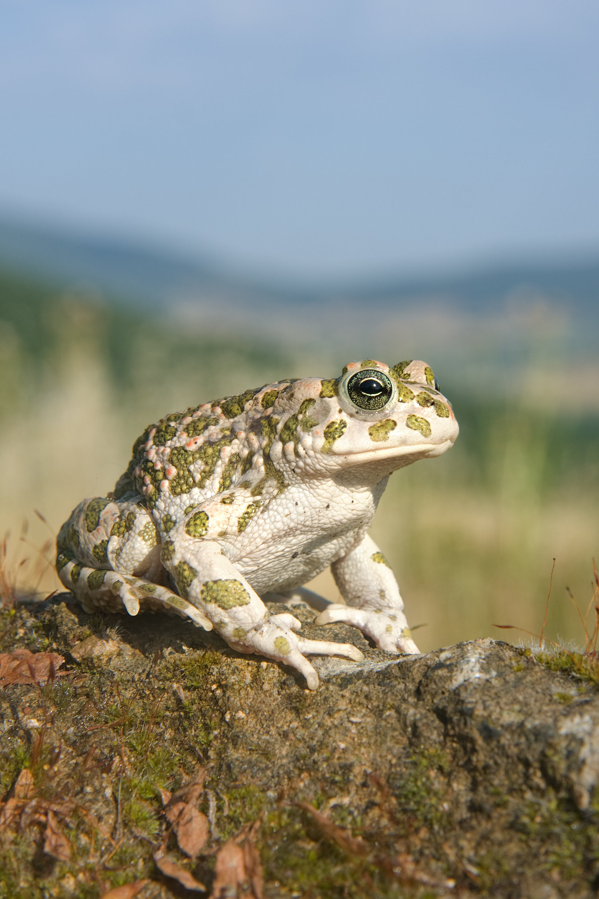 The European green toad is a toad found in mainland Europe, Asia, and Northern Africa.